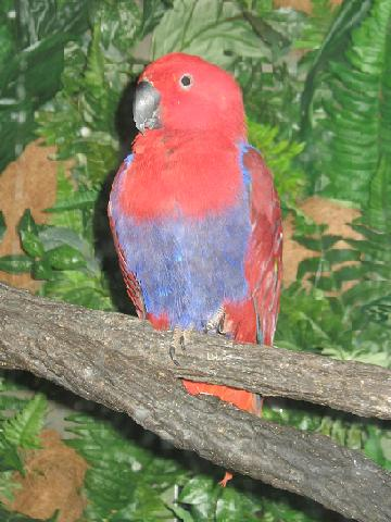 Eclectus Parrot in Prospect Park Zoo.